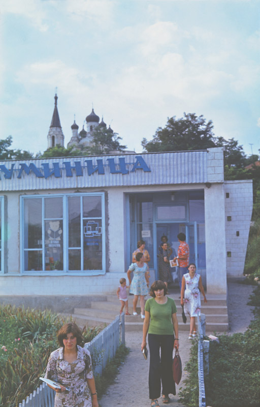 "Luminitsa" (village Slobozia-Dusca, Criuleni district, the 80-ies famous).